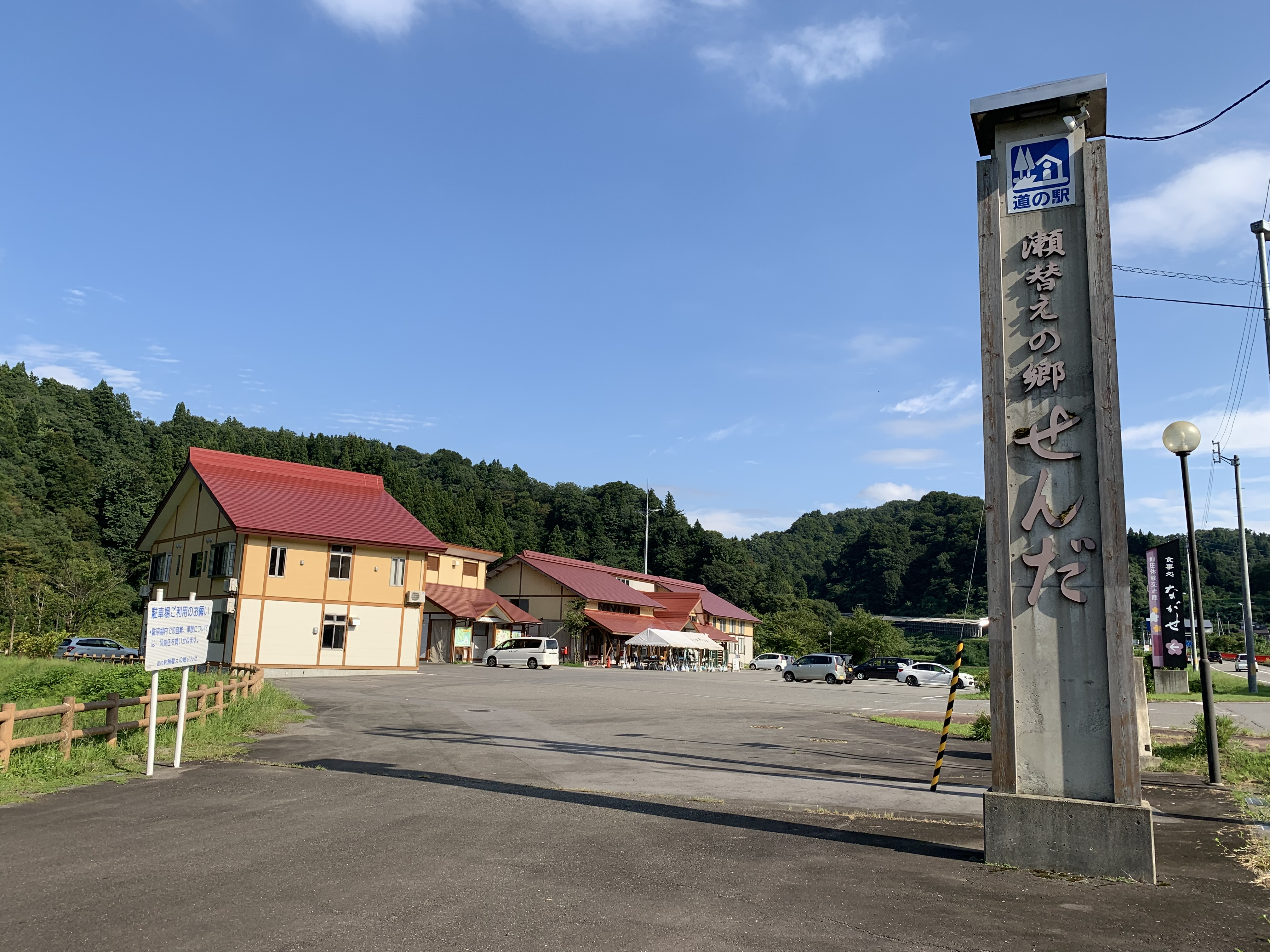 Segae no sato Senda, Michi no Eki (Roadside Station), Niigata, Japan. Took photo in September 2019.